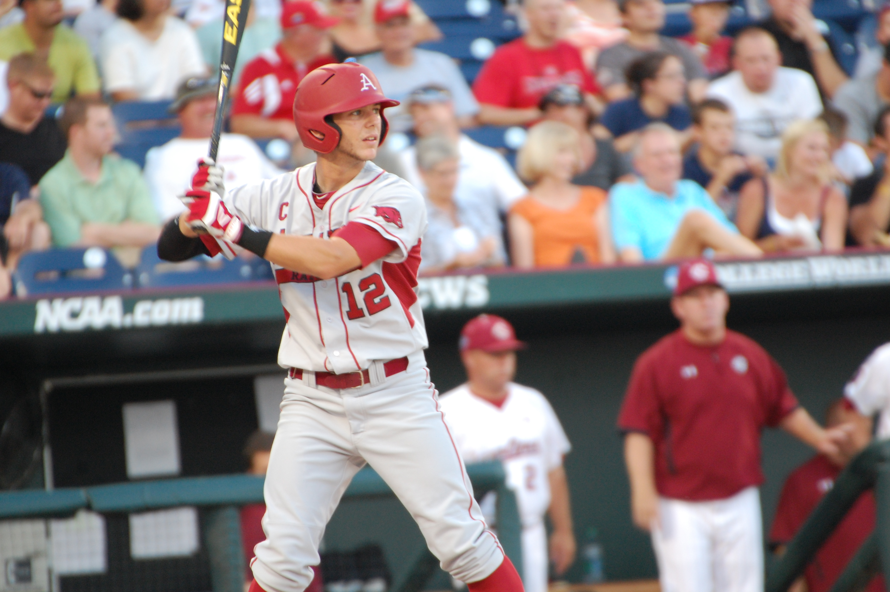 Bo Bigham bats for the Arkansas Razorbacks baseball team against the University of South Carolina at the 2012 College World Series in Omaha, Nebraska